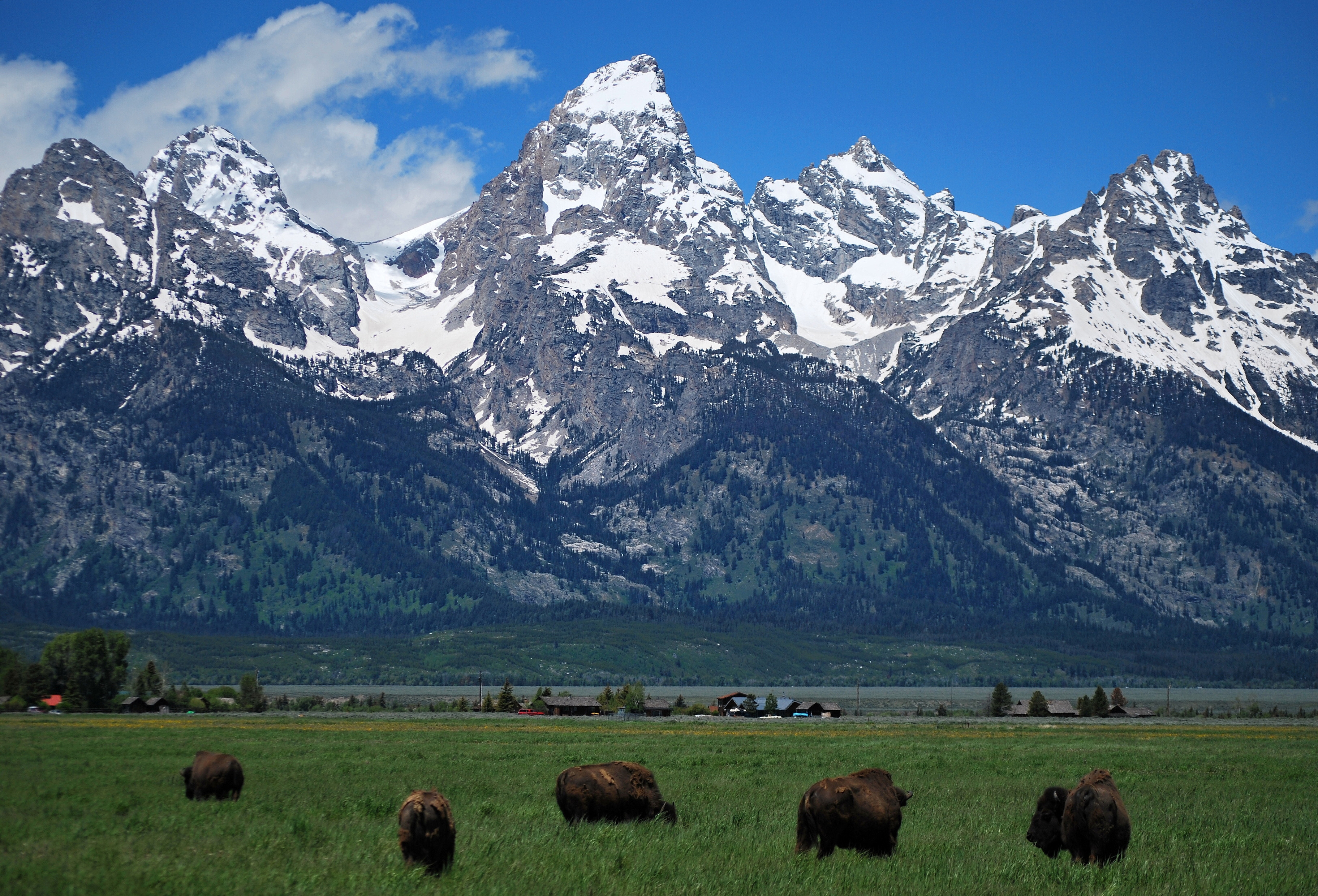 Grand Teton N.P.